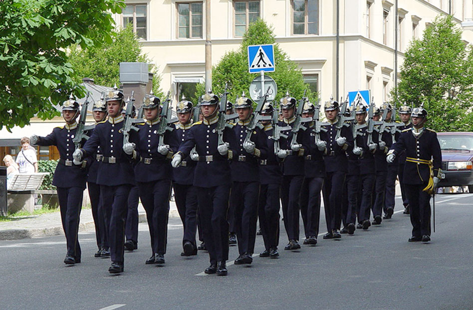 The image depicts conscripted members of the Guards Battalion of the Life Guards as part of the Royal Guards ceremony.